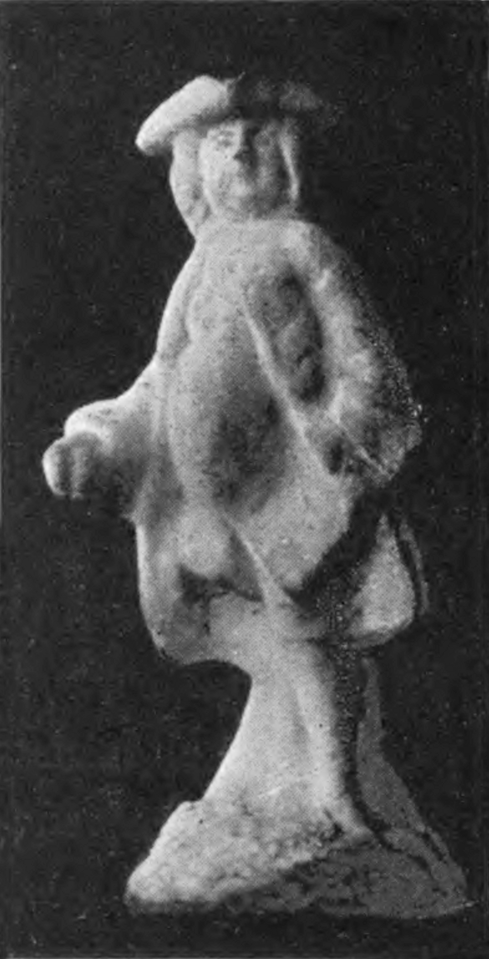 Original caption: “ A tobacco stopper (full size) — "first figure made at Derby." ”